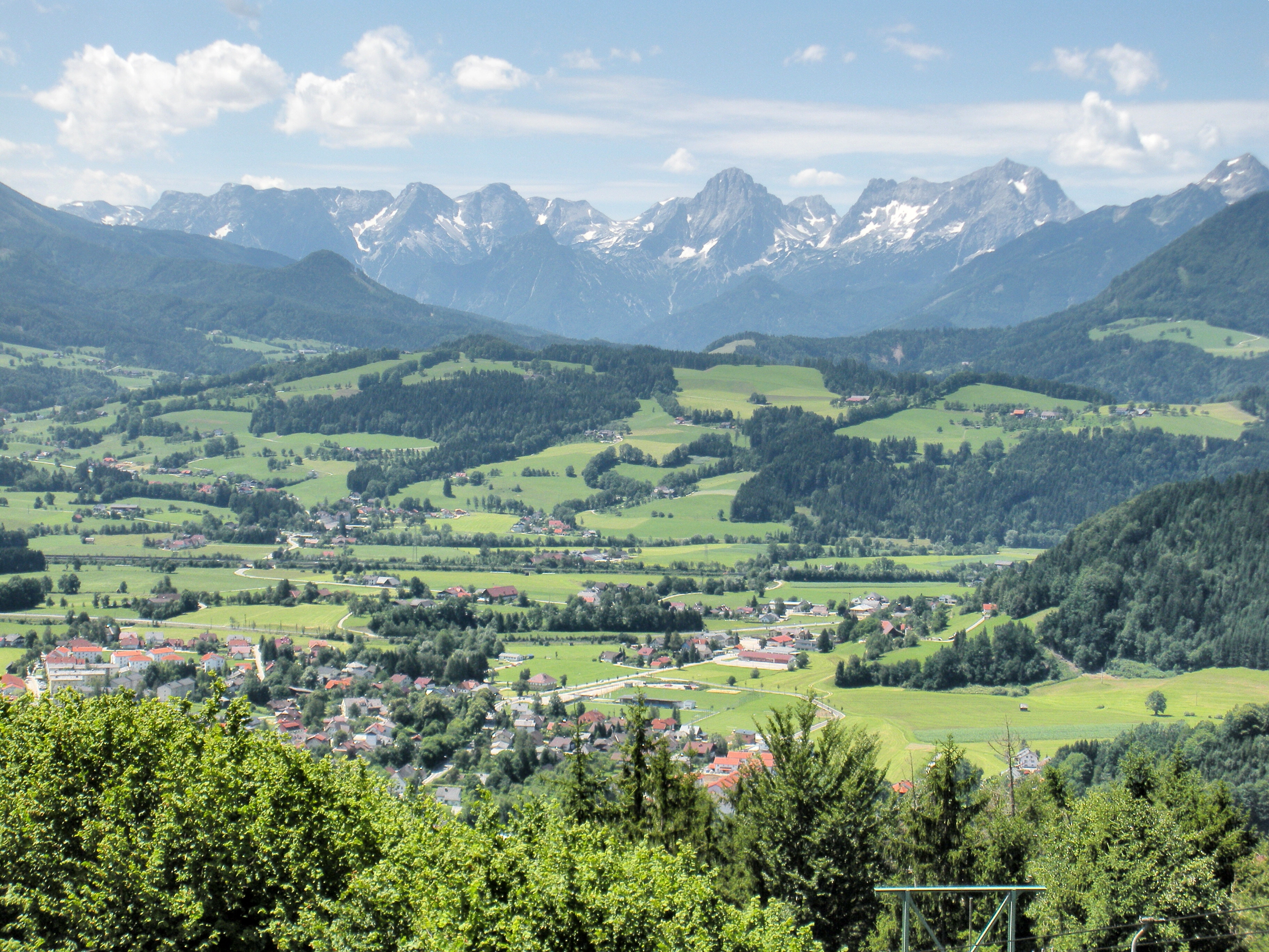 view from Wurbauerkogel on Windischgarsten, Schweizersberg and Totes Gebirge in Upper Austria